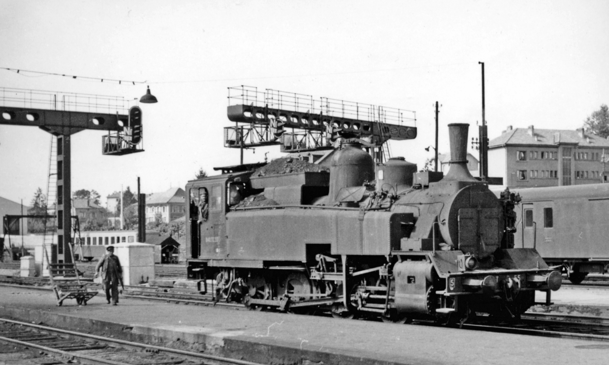 SNCF 0-8-0T at Besançon-Viotte (Doubs), 1958.